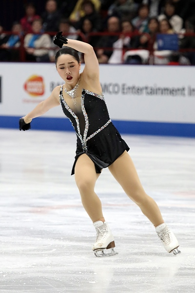 Photos – World Championships 2018 – Ladies (Wakaba HIGUCHI JPN – Silver Medal)